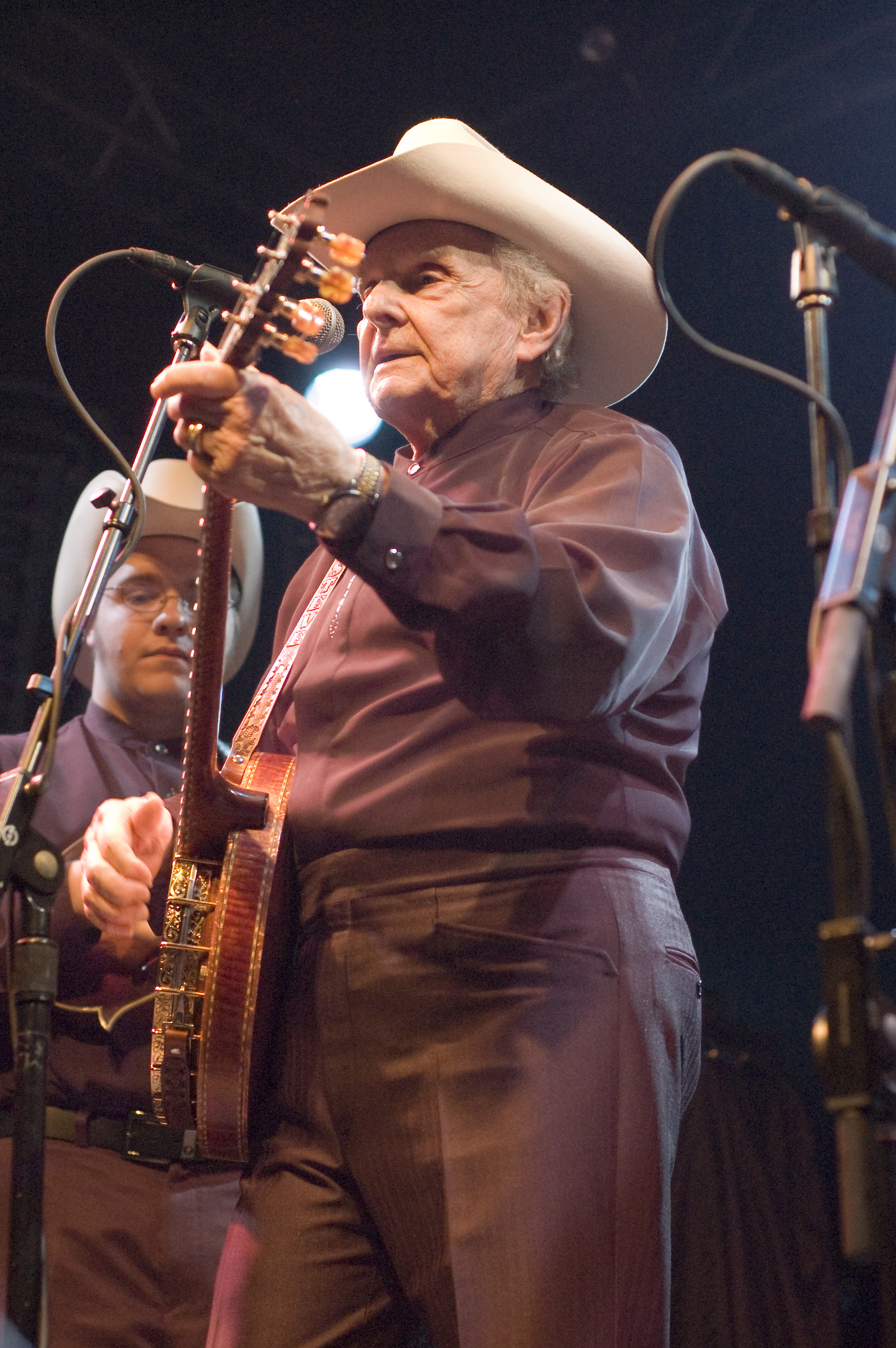 Ralph Stanley plays banjo April 20, 2008.